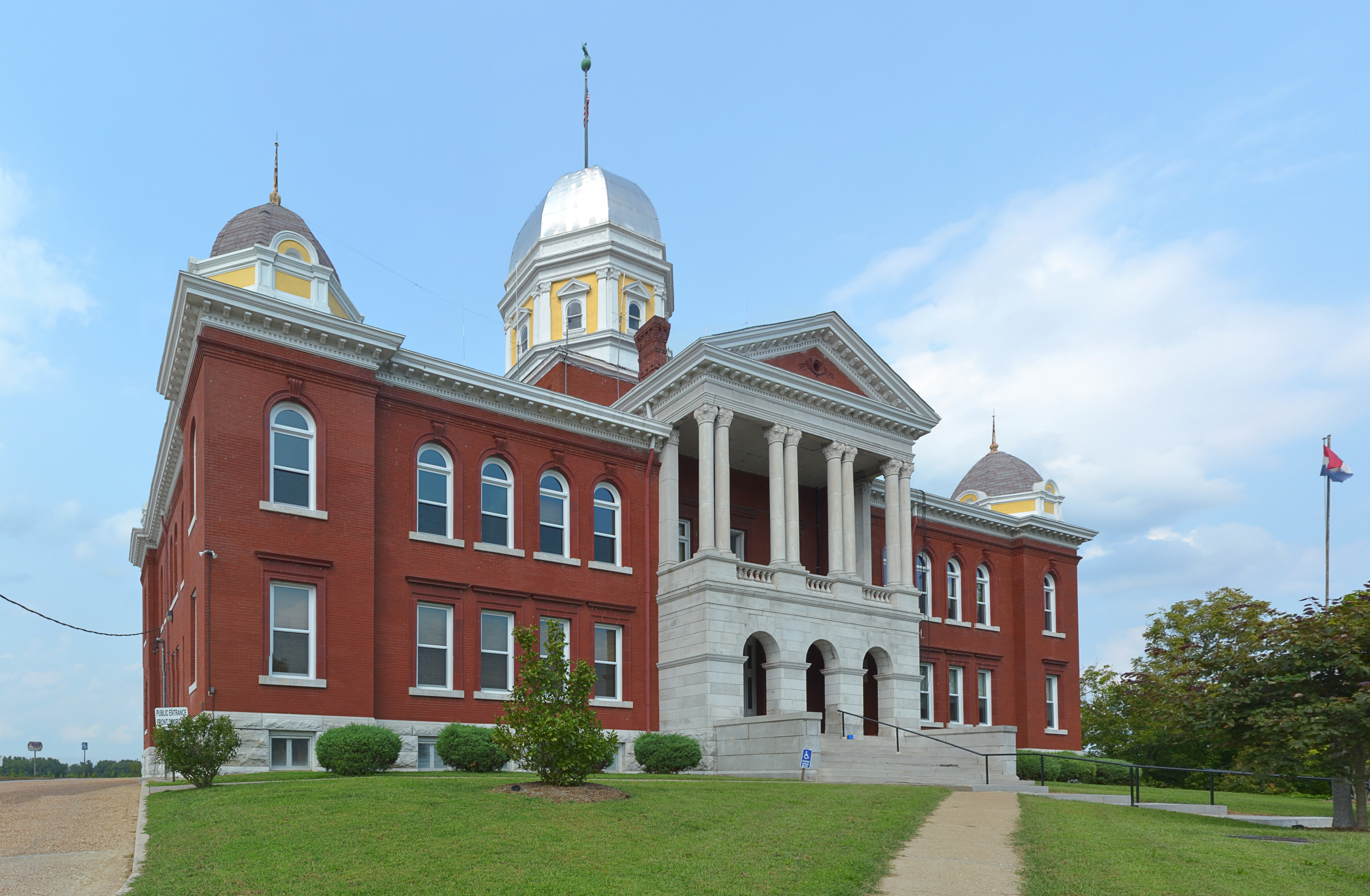 The county courthouse in Gasconade County, Missouri. J.B. Legg/A.W. Elsner, architects, 1896-98.